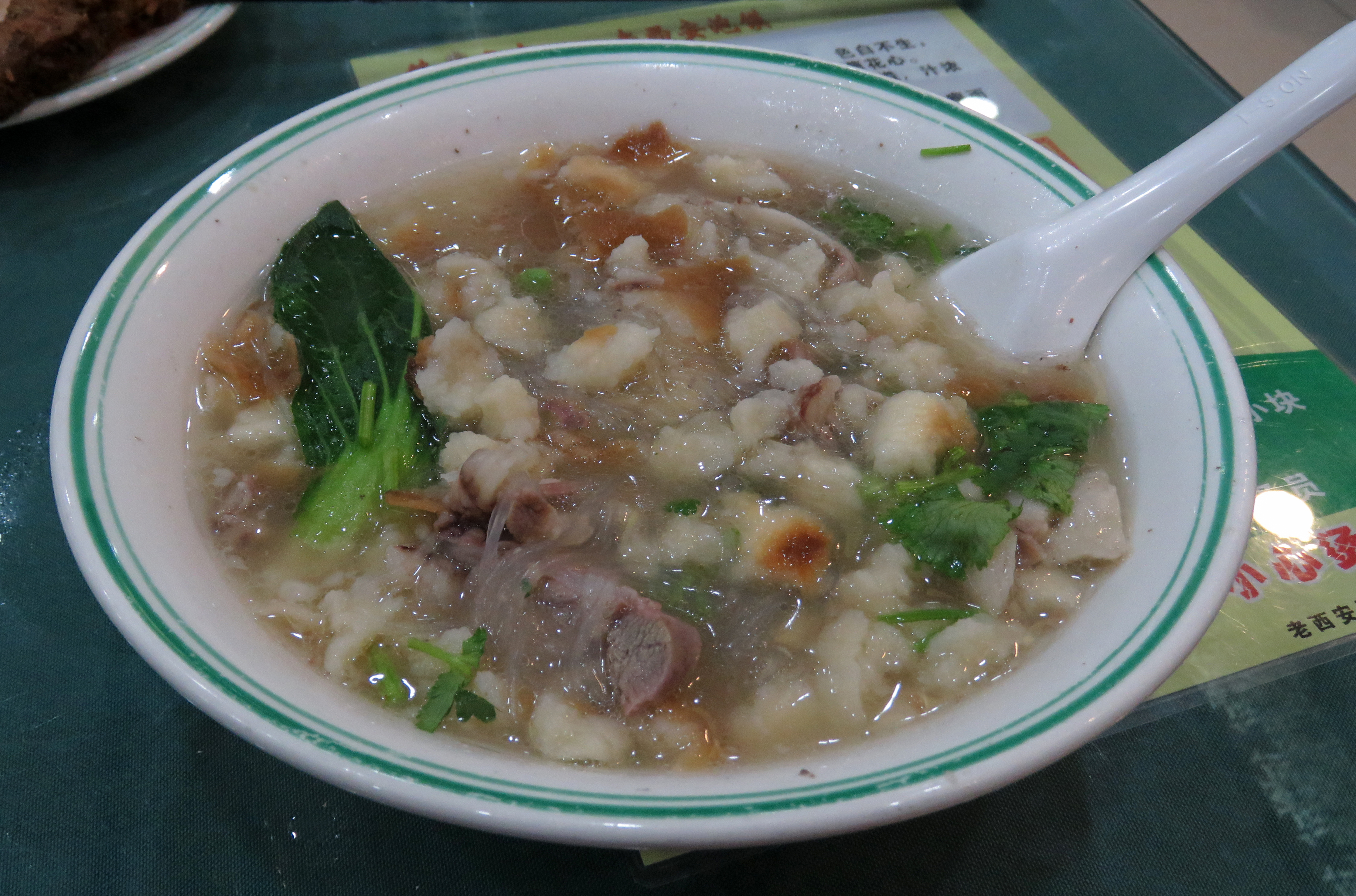 At this restaurant in Xinjiekou, the flat bread should be torn up manually by consumers at first before boiling. 1F only offers Paomo and cold dishes, while 2F offers hot dishes additionally.